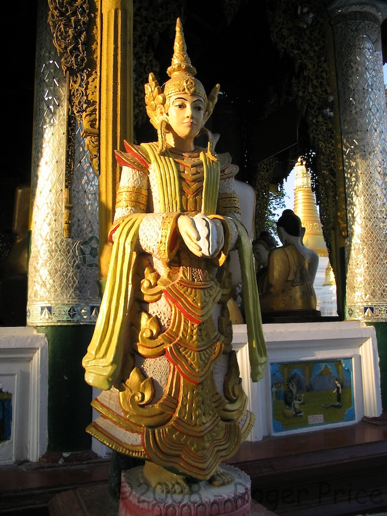 Statue of Thagyamin, Lord of the Nats at Shwedagon Pagoda, Yangon